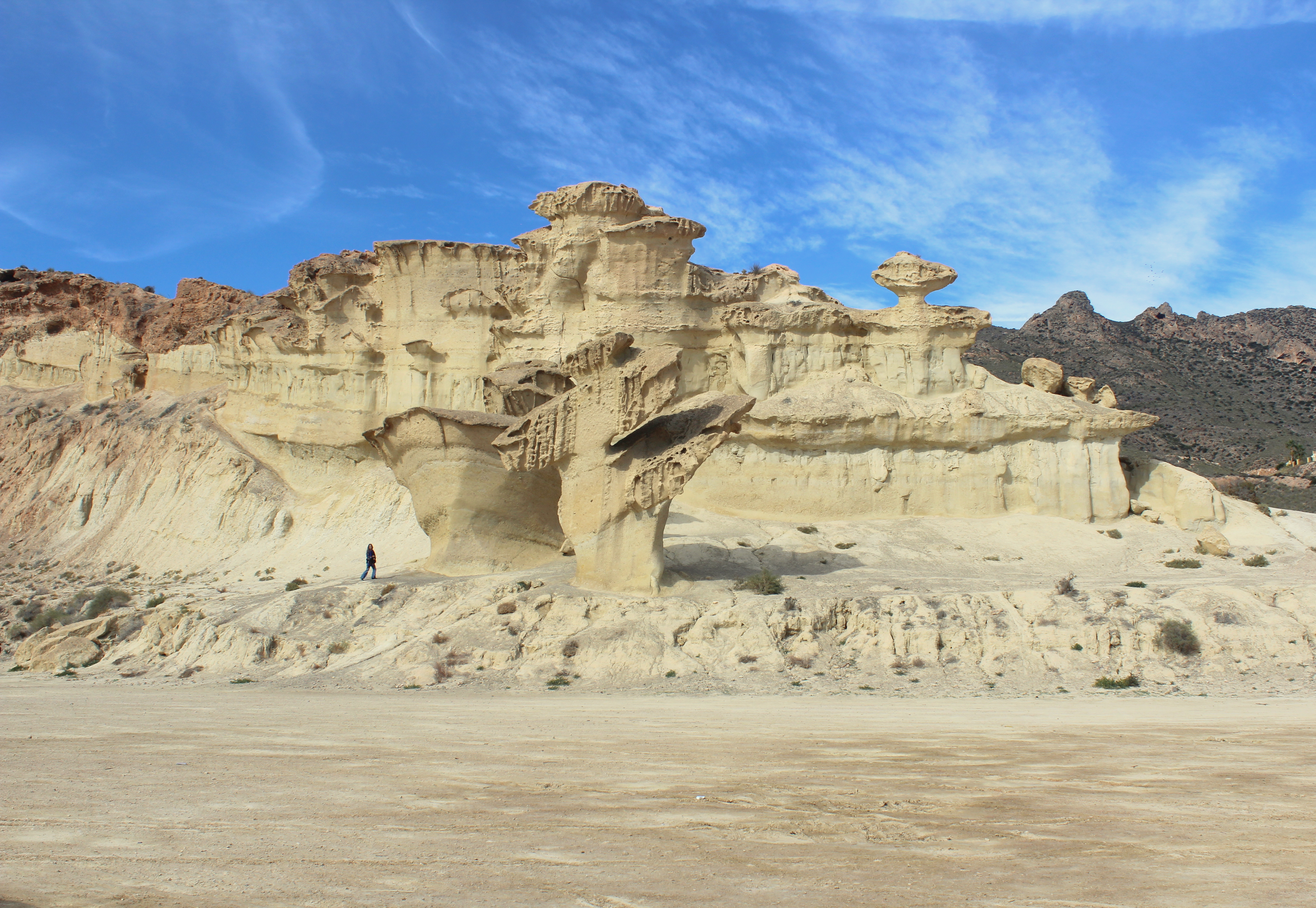 Eroded sandstone formations at Bolnuevo, Spain known as the "Ciudad Encantada de Bolnuevo" (Enchanted City of Bolnuevo). These formations, located about 250 metres inland from the Bay of Mazarrón have been formed by erosion two sets of faults, one set that lies parrallel to the coastline and another that is at an angle of 50° to the coastline.